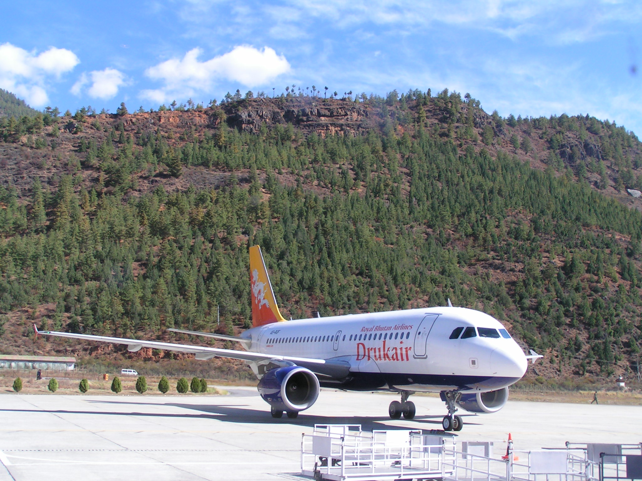 Airbus A319-115 aircraft (A5-RGF) of Drukair at Paro Airport, Bhutan